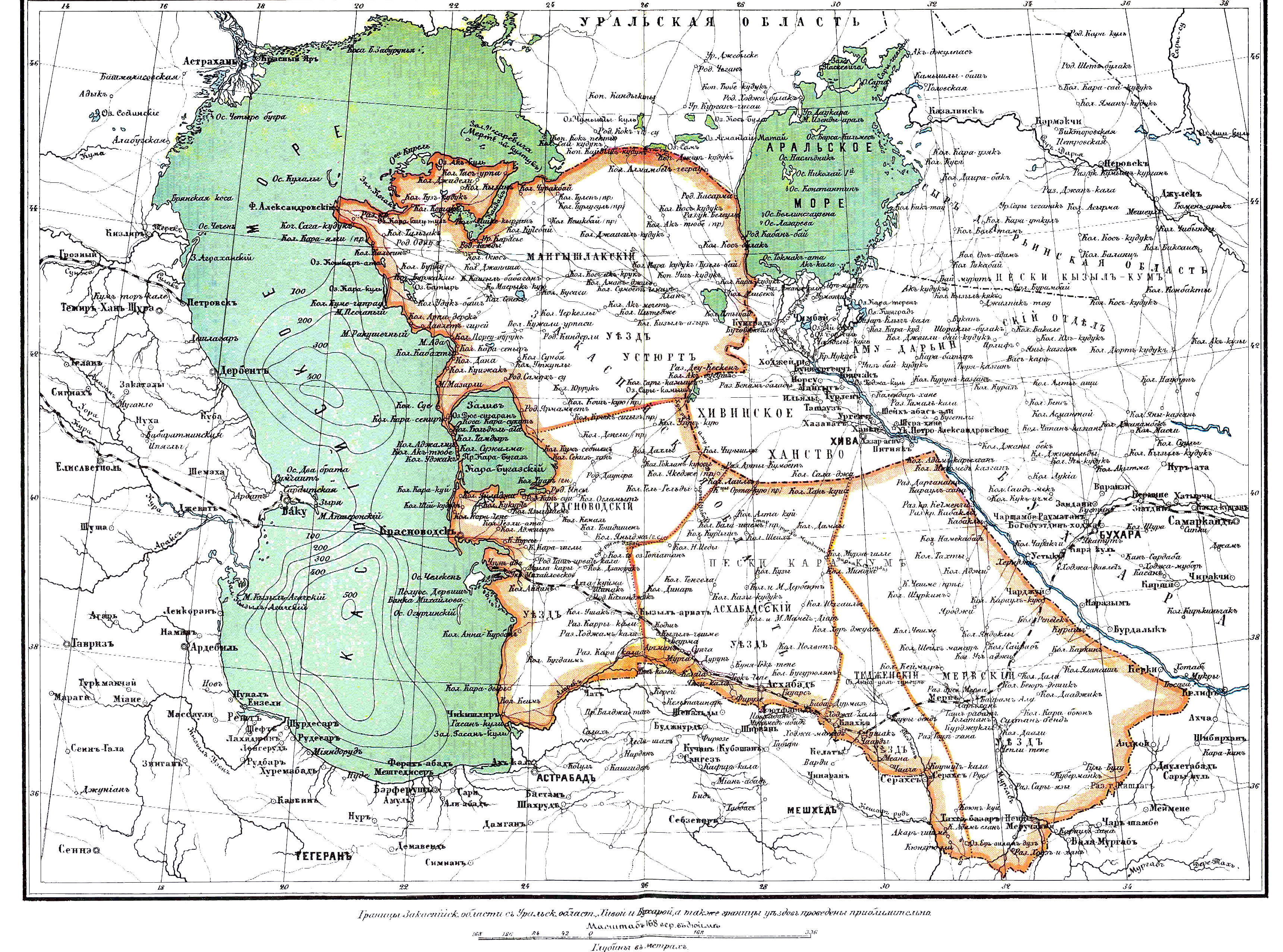 Illustration from Brockhaus and Efron Encyclopedic Dictionary (1890—1907)